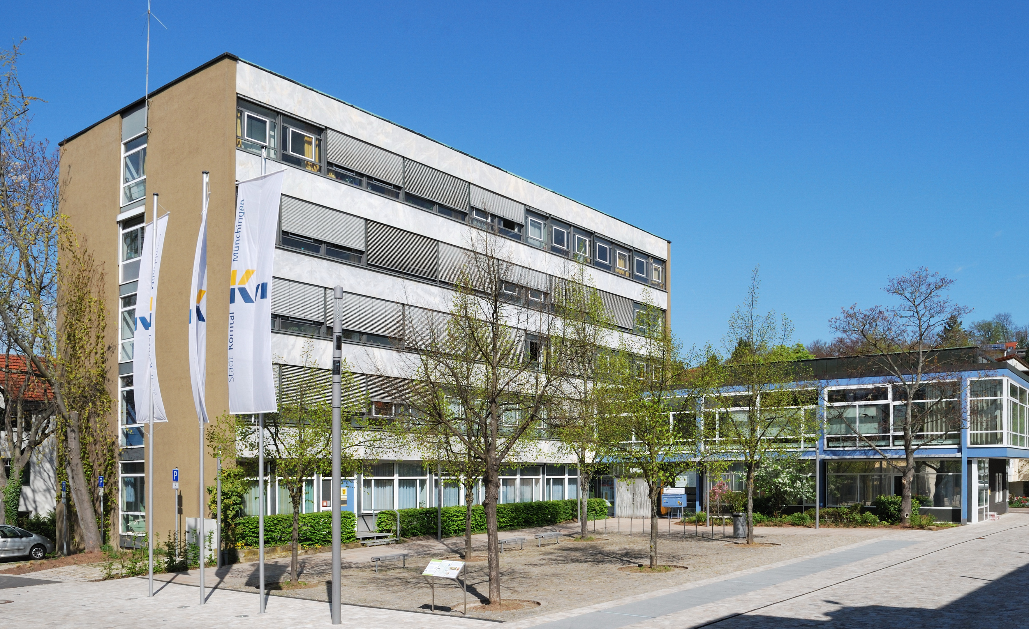 The municipal hall in Korntal in the German Federal State Baden-Württemberg.